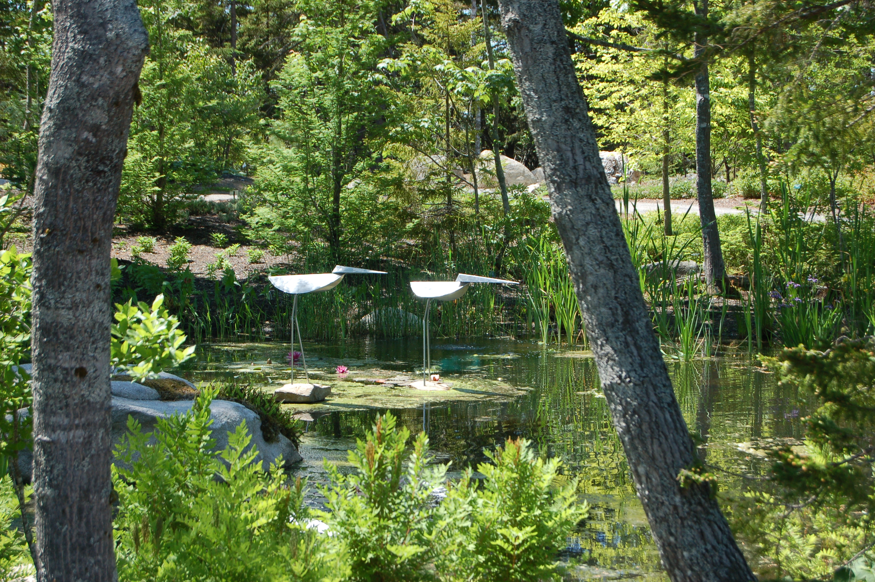 3 Herons (Roundbelly) by George Sherwood; 6" x 6" x 48" each; stainless steel